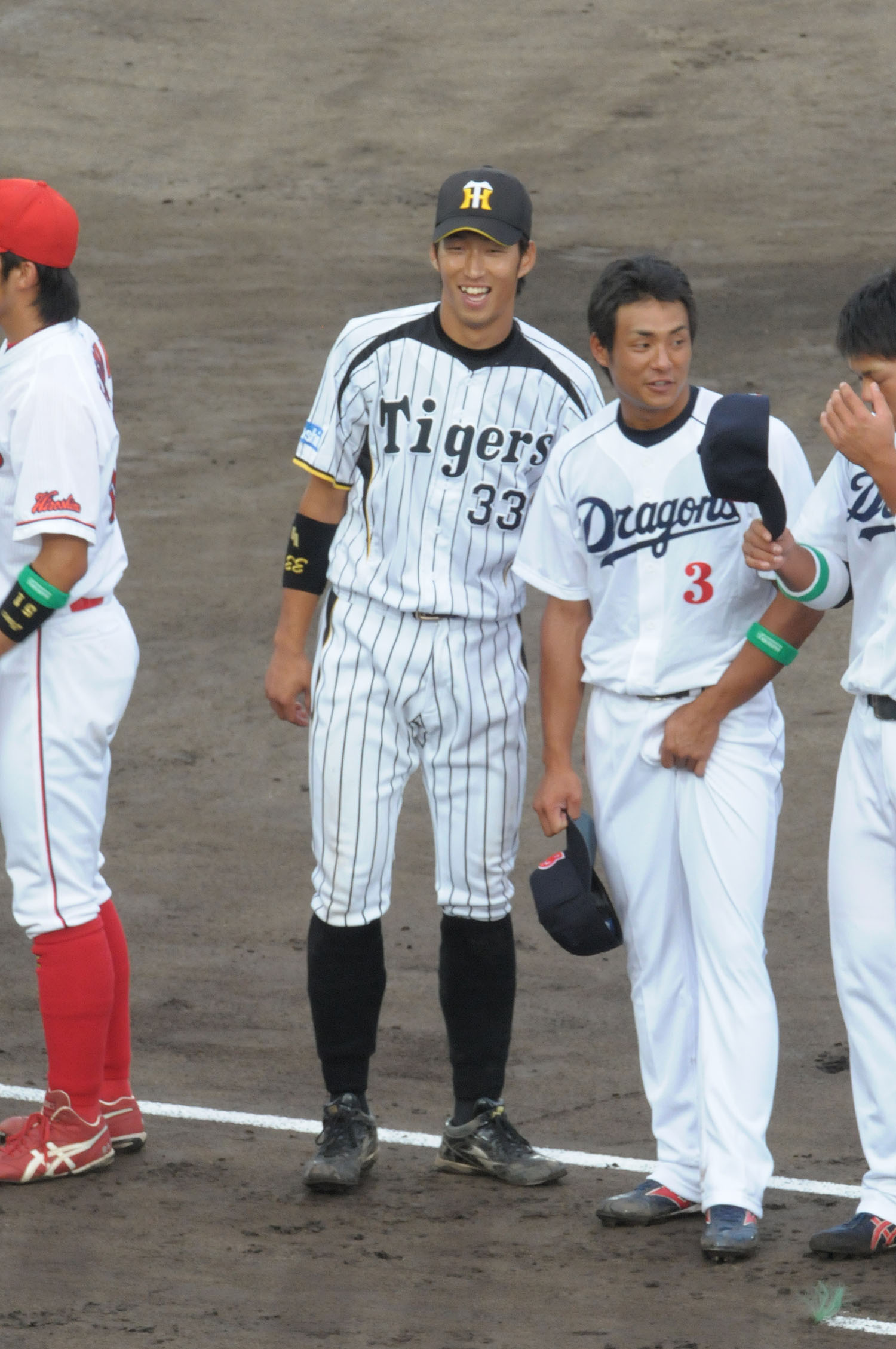 Naoto Nishida, infielder of the Hanshin Tigers, at Akita Prefectural Baseball Stadium.